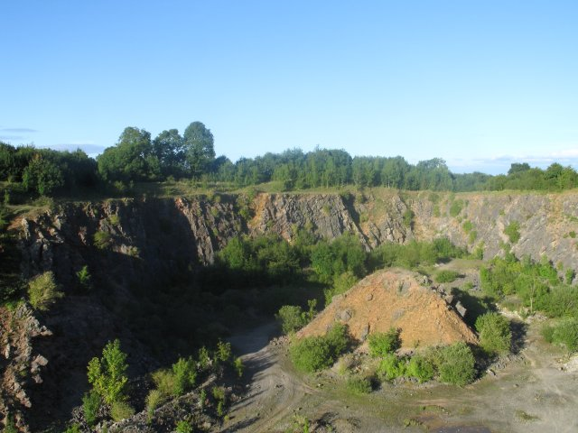 "Fairy Cave" Quarry, Somerset. This view shows looking into the East End of the now disused limestone quarry. Disused, that is, apart from the cavers, climbers and motorcyclists who make use of this area.